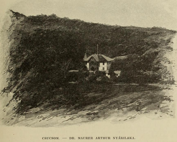 Mansion in Csucsom